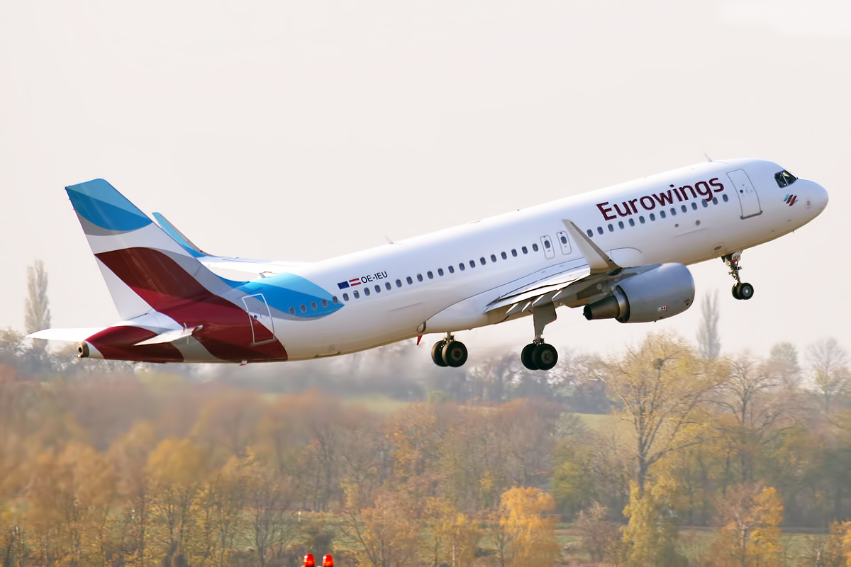 Eurowings Europe, OE-IEU, Airbus A320-214